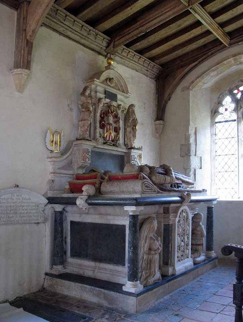 St George's Church, South Acre, Norfolk - Monument with effigy of Sir Edward Barkham (d.1634), Lord Mayor of London (1621-1622), and wife. Arms of Barkham: Argent, three pales gules overall a chevron or